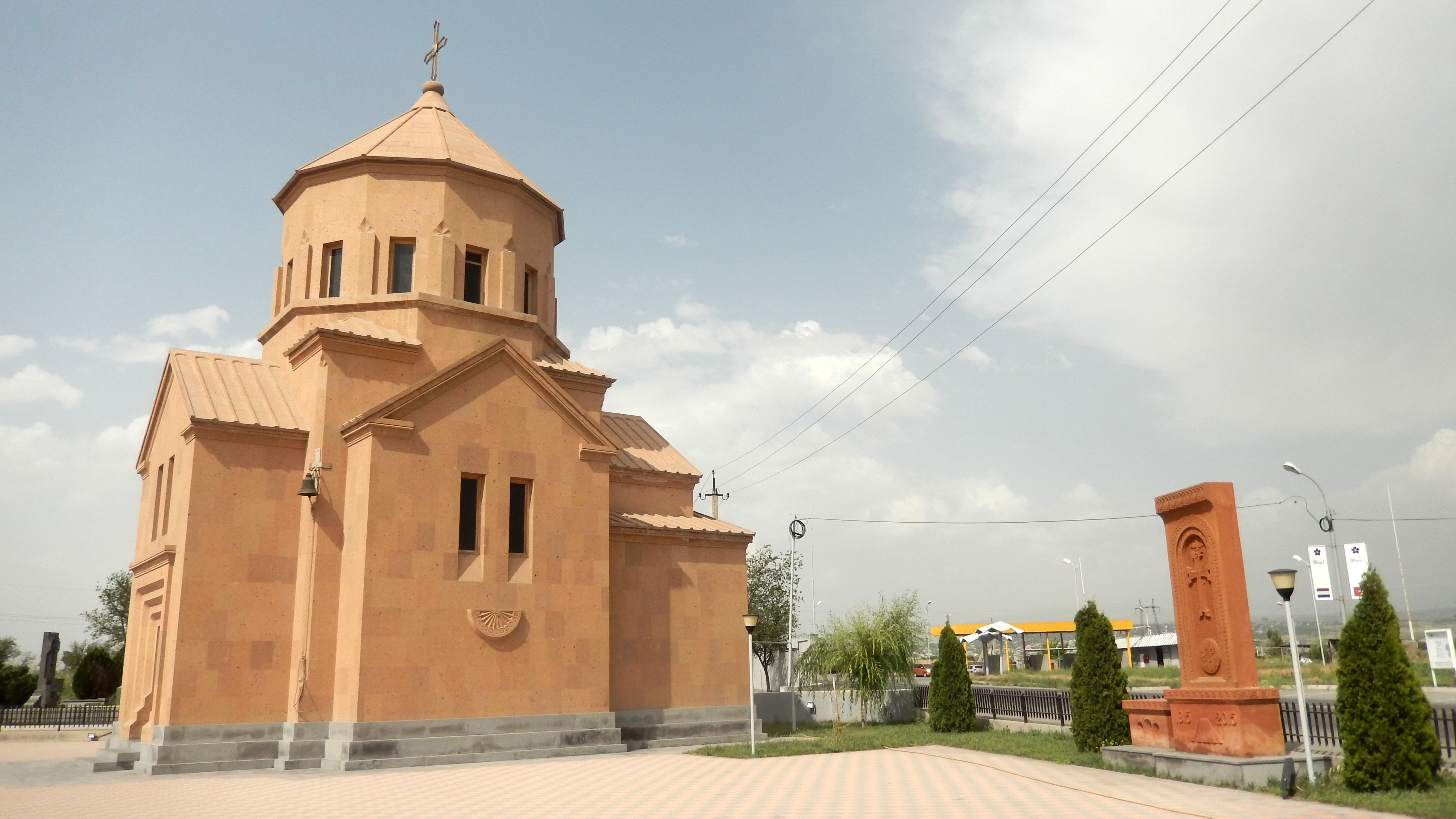 St Gevorg Church, Masis